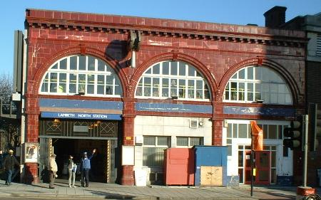 Lambeth North tube station